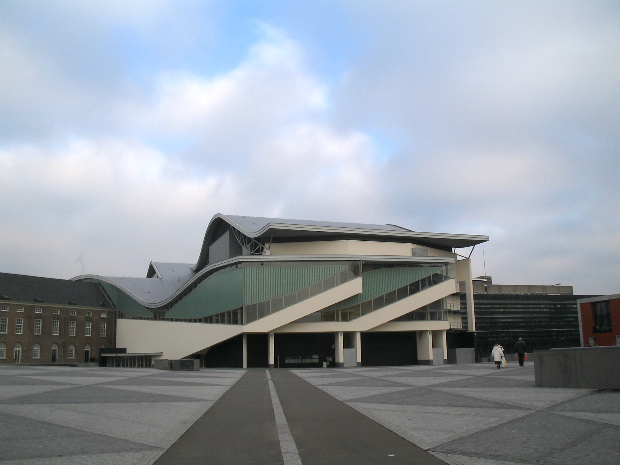 Breda Chasse theater, dec. 2005